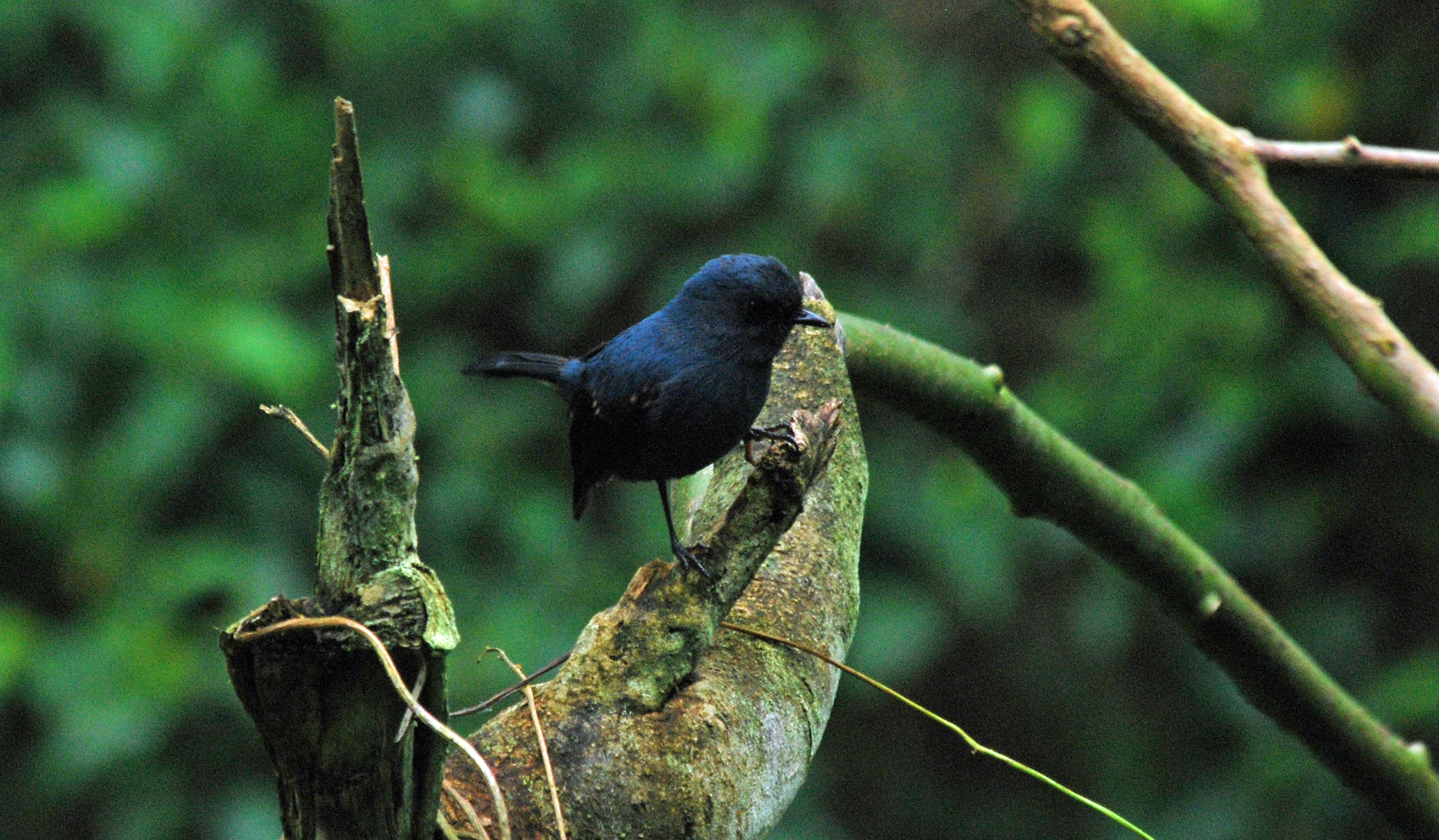 Blue-grey Robin, Ambua Lodge, PNG